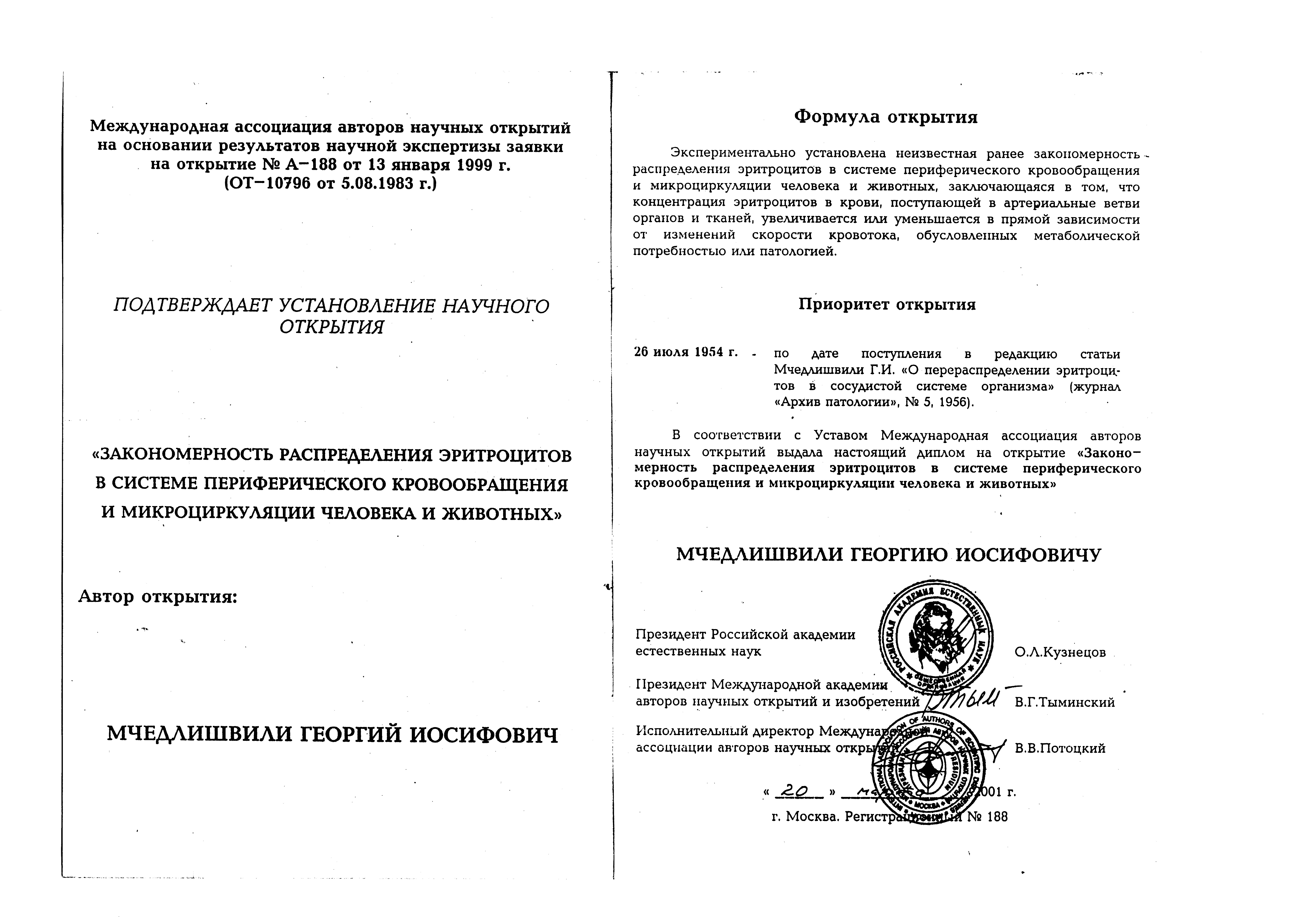 Description of the discovery #250, registered by the Committee of inventions and discoveries of the USSR